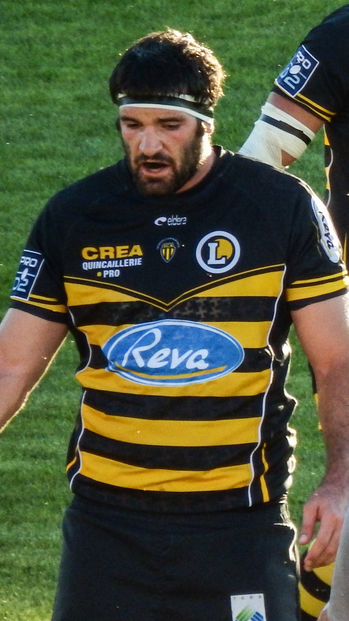 2014–15 Rugby Pro D2 season — 13 September 2014, Stadium Municipal d'Albi. Match between: SC Albi — US Dax